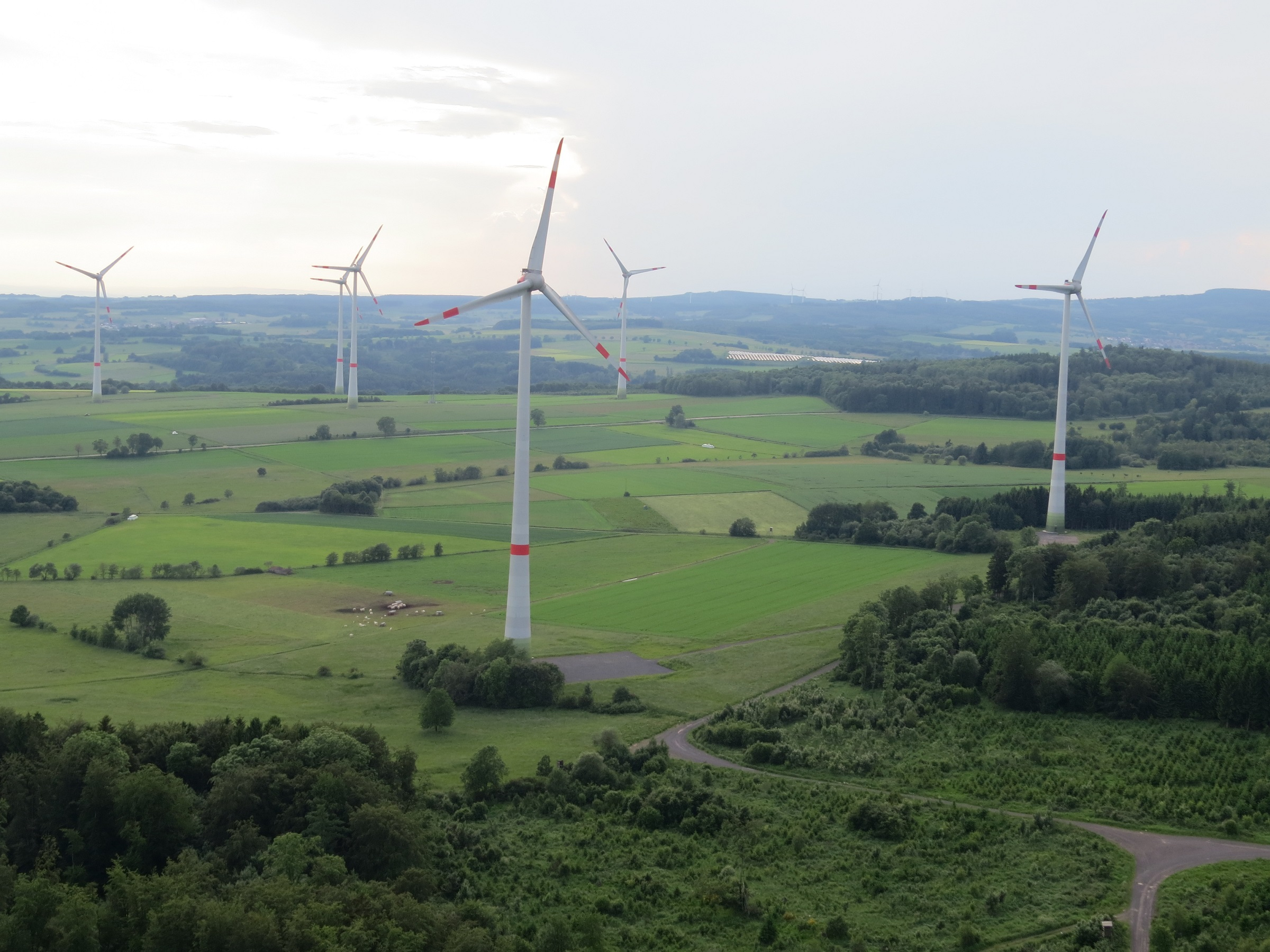 View from Turbine No. 8 in the "Windwald Blaues Eck" wind farm near Freiensteinau (Hesse, Germany). Visible are two turbines of the "Windwald Blaues Eck" (Luftstrom GmbH) and four of the "Windpark Freiensteinau" (Rudewig & Lompe GbR), all of the type Enercon E-101.